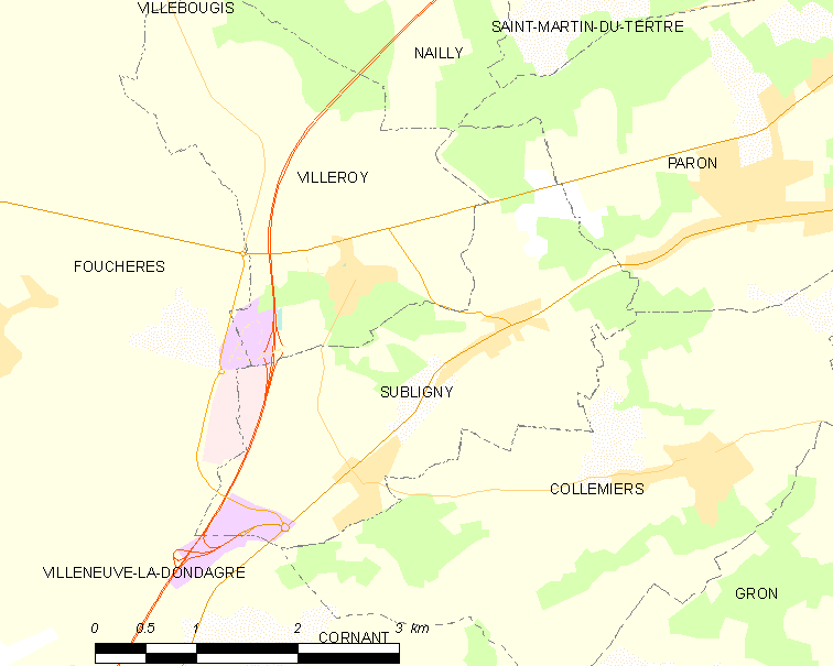 Map of French municipality Subligny